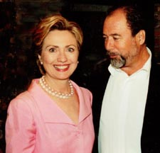 Hillary Clinton with Peter Paul the largest hidden donor to her 2000 Senate campaign=